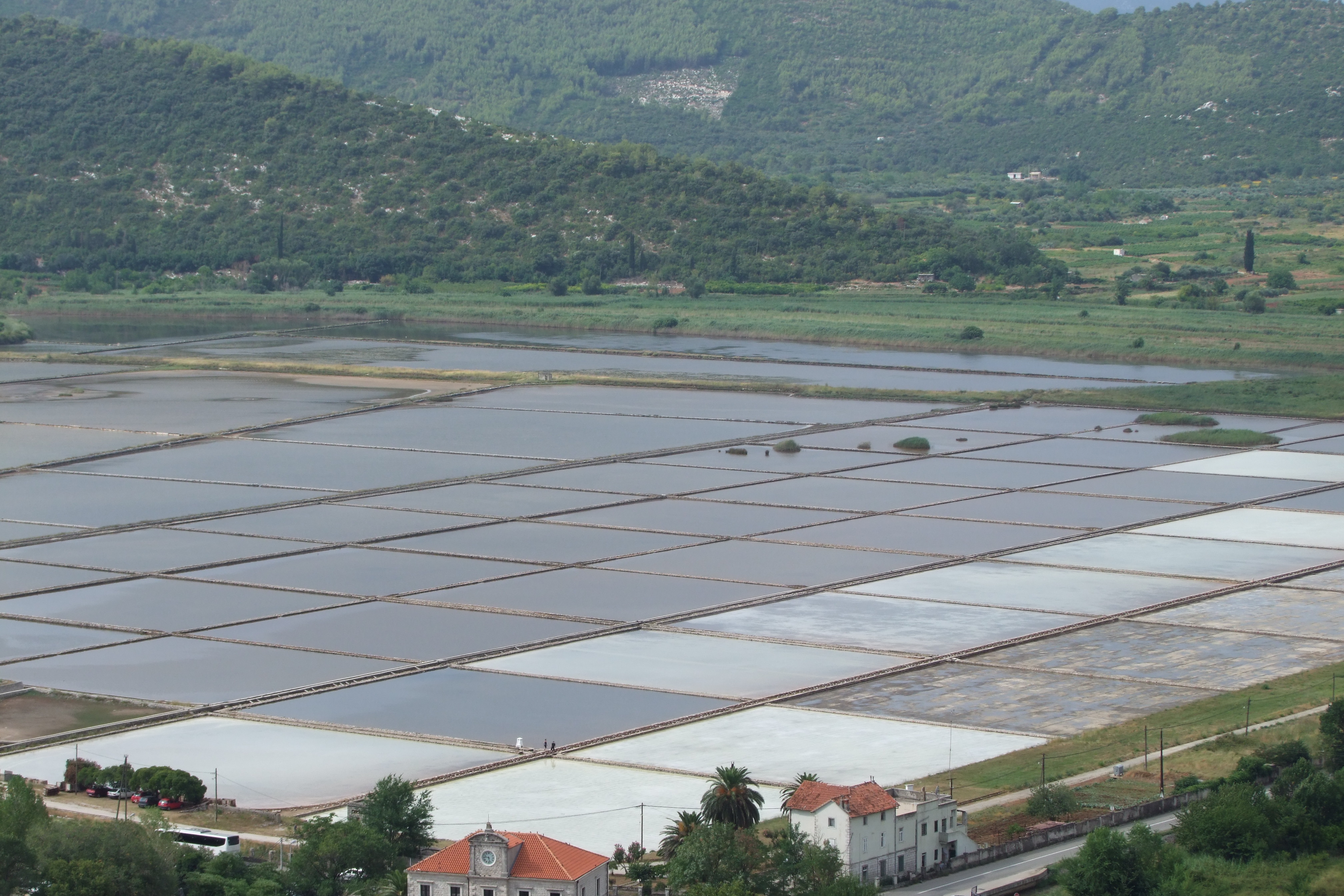 Ston - pools of salt.